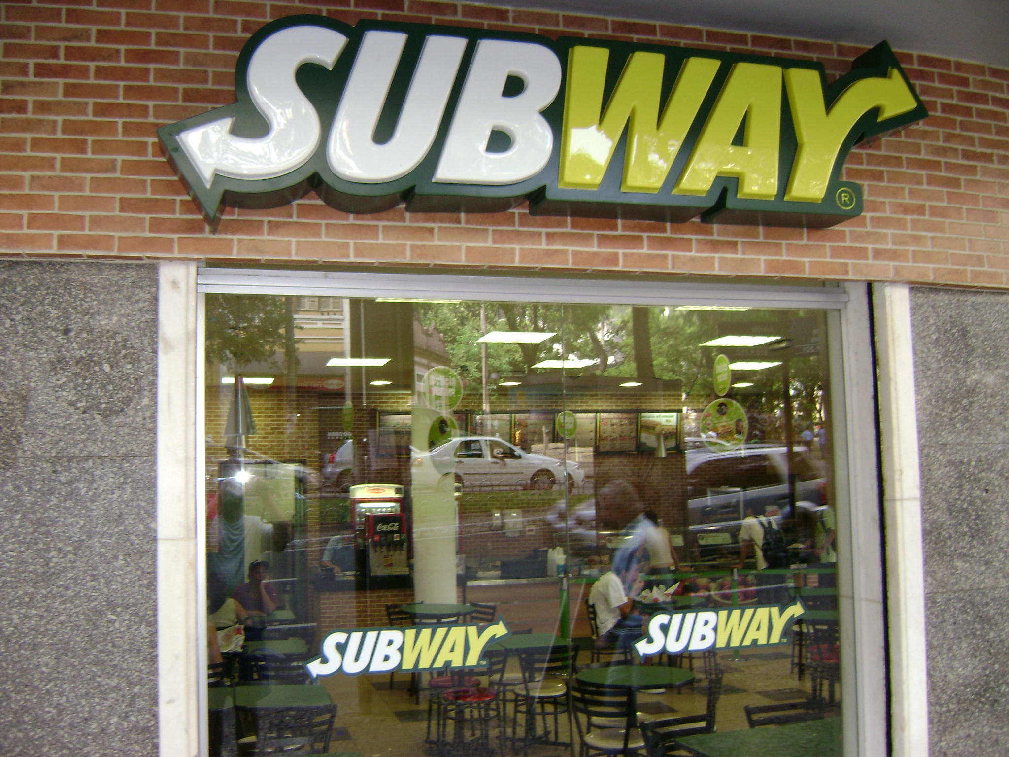 Subway in Belo Horizonte.